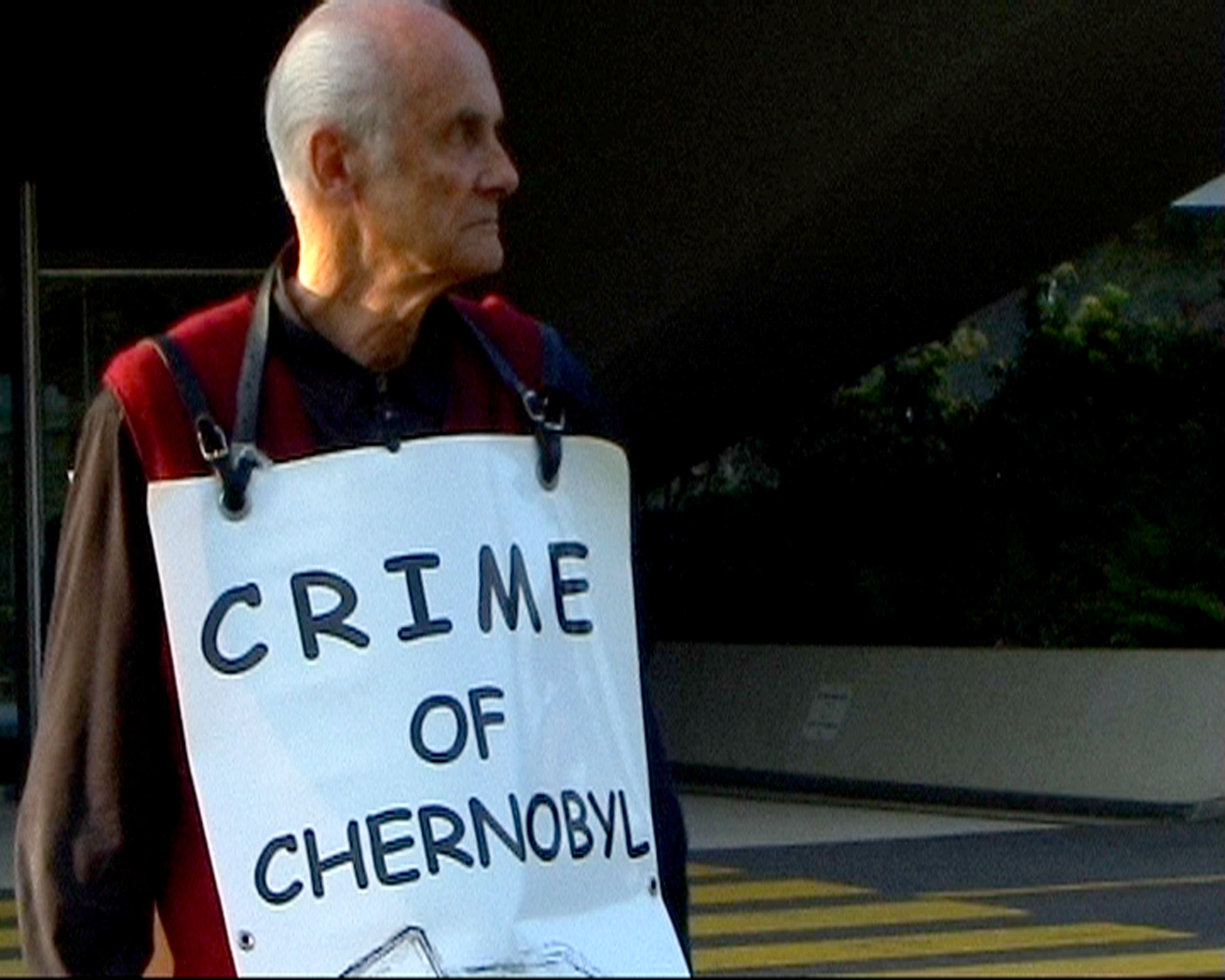 Demonstration on Chernobyl day near WHO in Geneva.